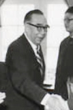 Chai Zemin (uploader is about 95% confident about this ID; Chai Zemin appears somewhere in this contact sheet and this person appears to be him based on other photos of him available online)